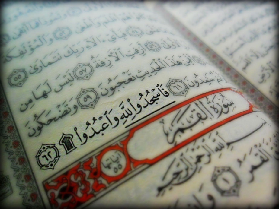 The last Ayah from Surat An-Najm in Quran